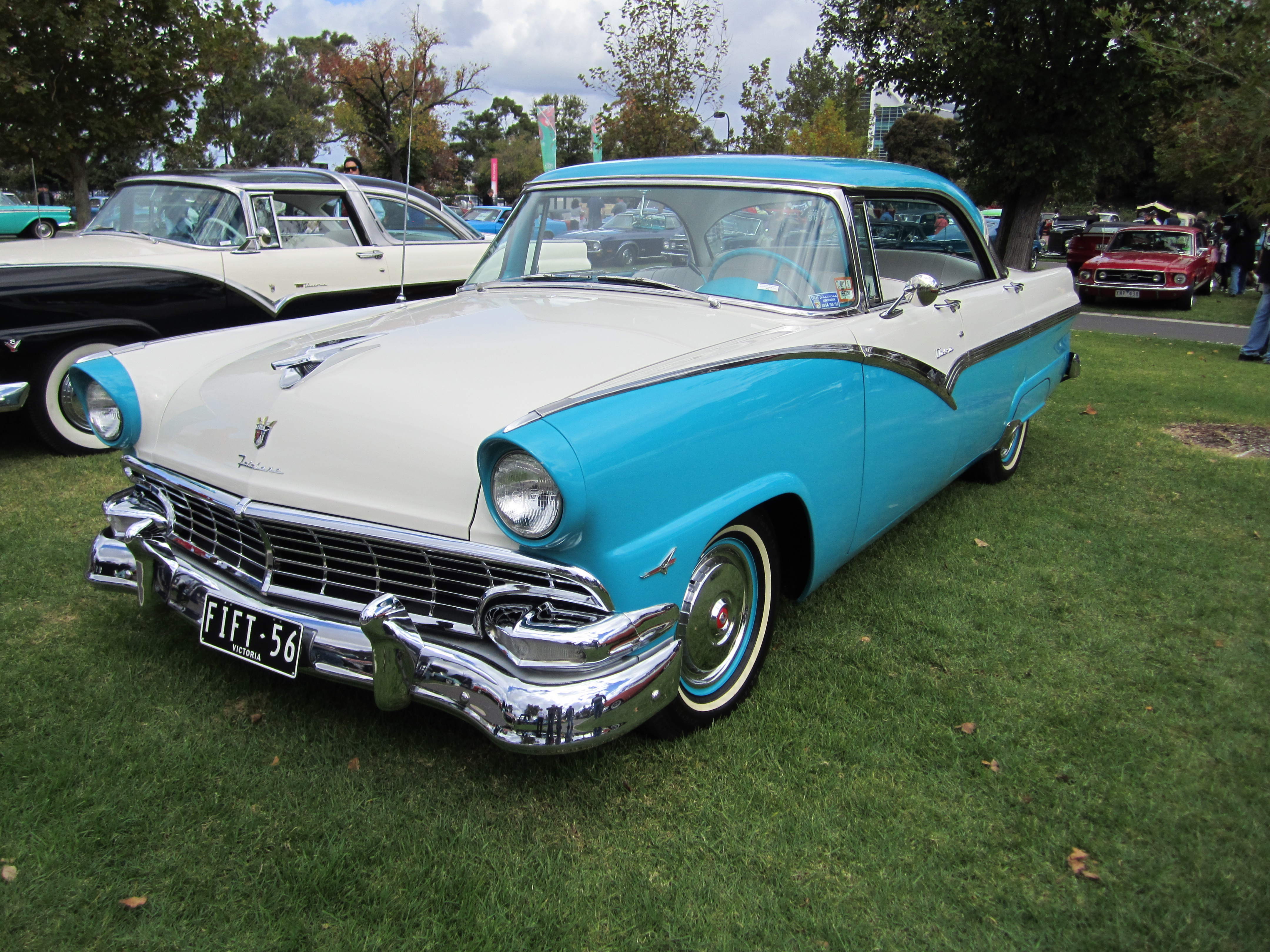 Revised grille for 1956 Available in Mainline, Customline, Fairlane & Victoria Sedans also Customline, Crown Victoria Hardtop & Skyliner, Country & Ranch Wagons, V8 Customline Sedan & Mainline Utility Produced in Australia. Engines; 223 6 cyl OHV or 162hp 272 & 193hp 292 Y block V8s